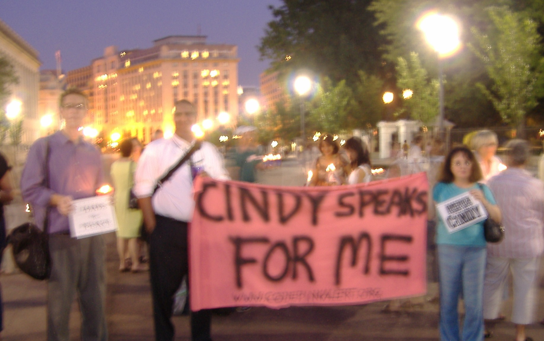 Protesters at the White House support Cindy Sheehan's protest at the Bush ranch outside Crawford, Texas.